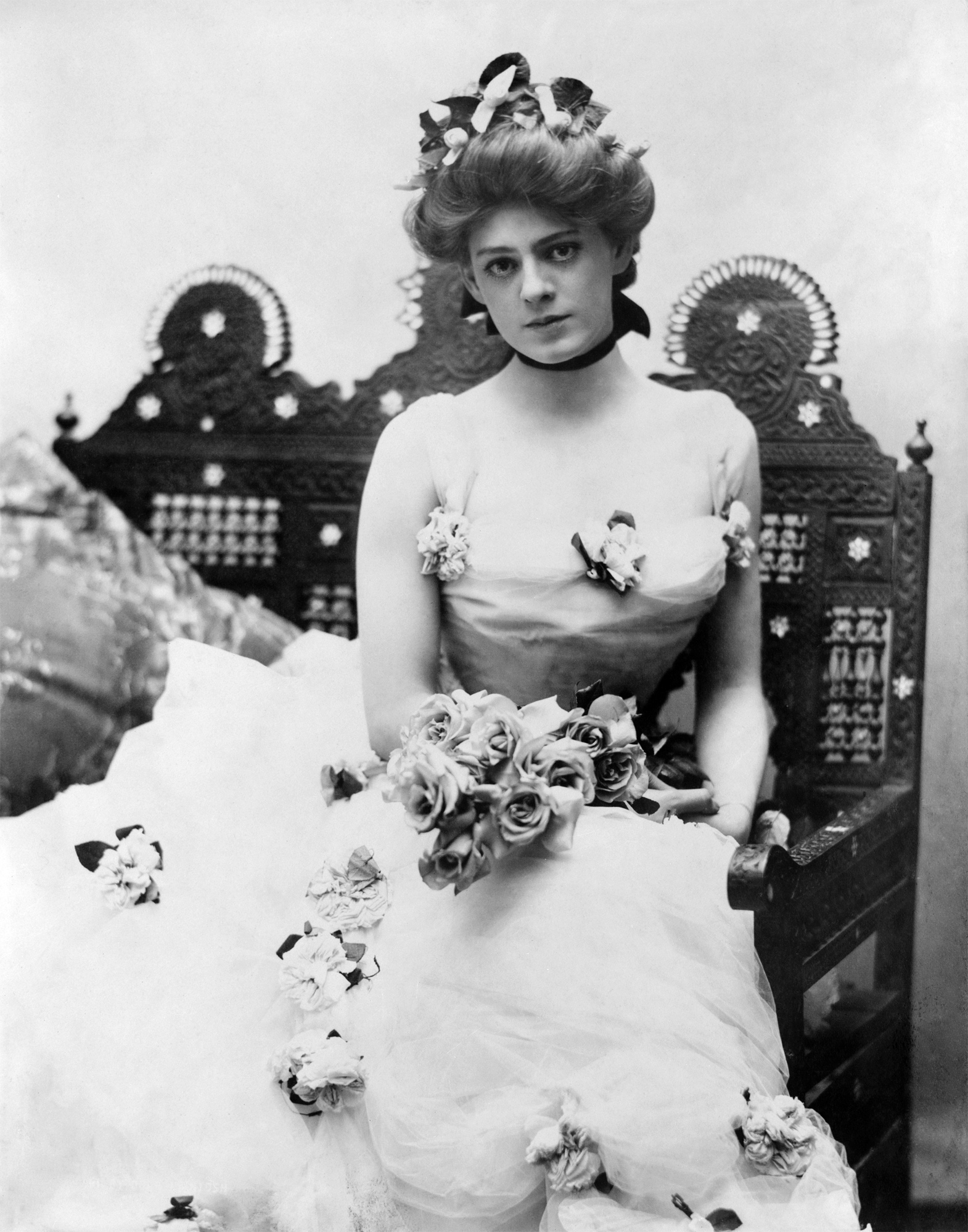 BARRYMORE, ETHEL. Photograph by Burr McIntosh, N.Y. Copyrighted 1901. Location: Biographical File Reproduction Number: LC-USZ62-107369